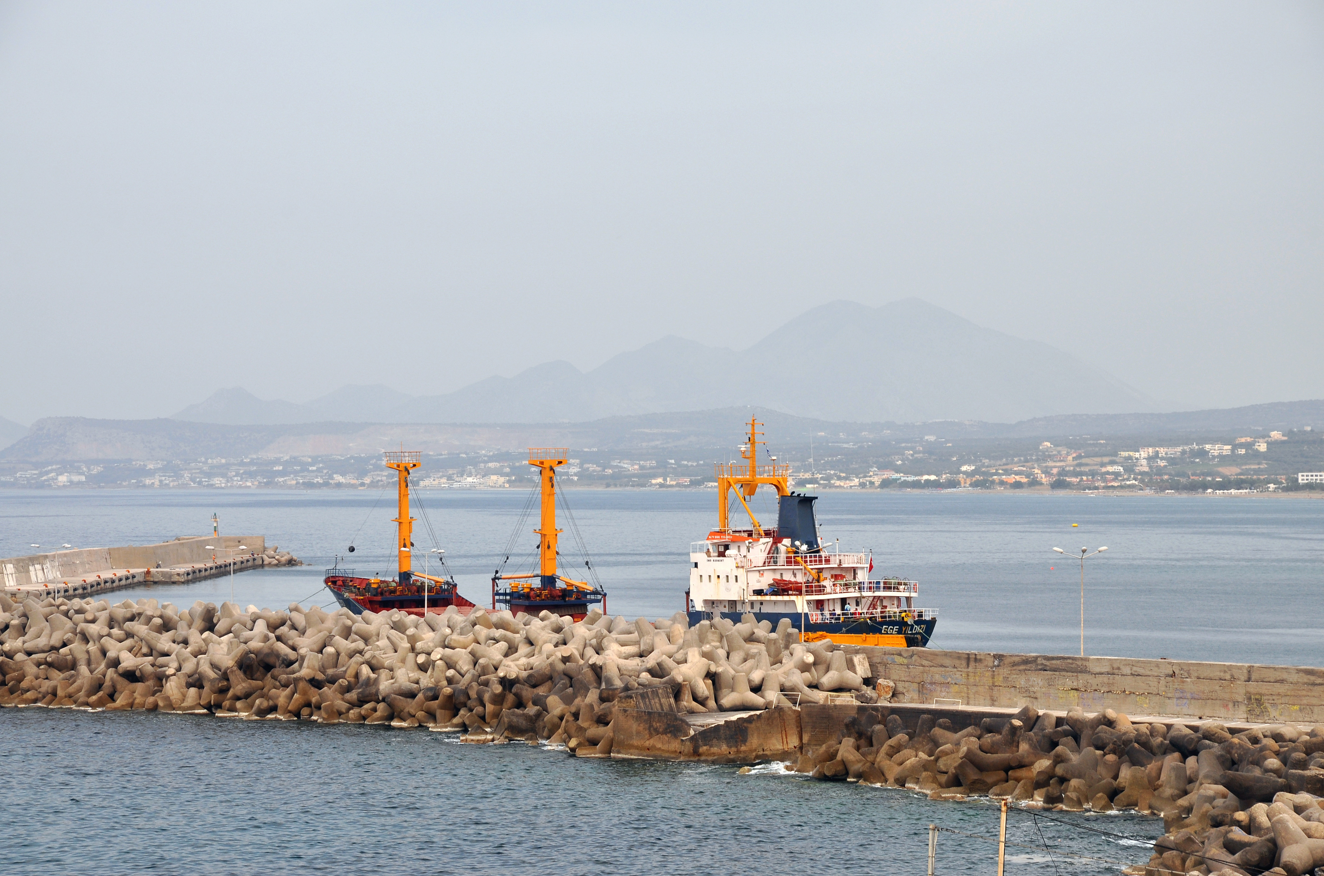 Ships in a new harbour of Rethymno in Crete, Greece.